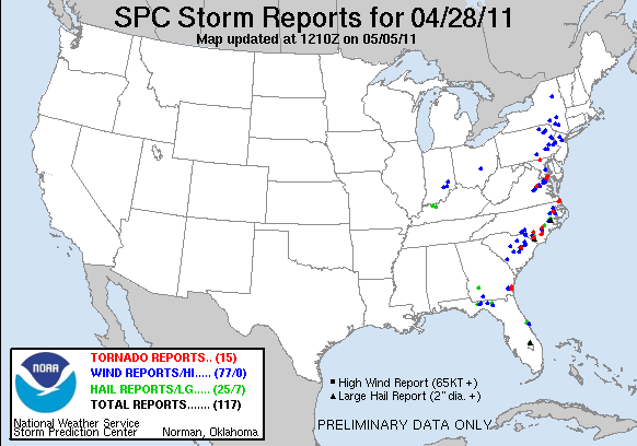 Plotted reported damages by tornadoes, hail and winds for the 24 hours period from April 28th, 2011 at 12 UTC to the 29th at 1159 UTC.